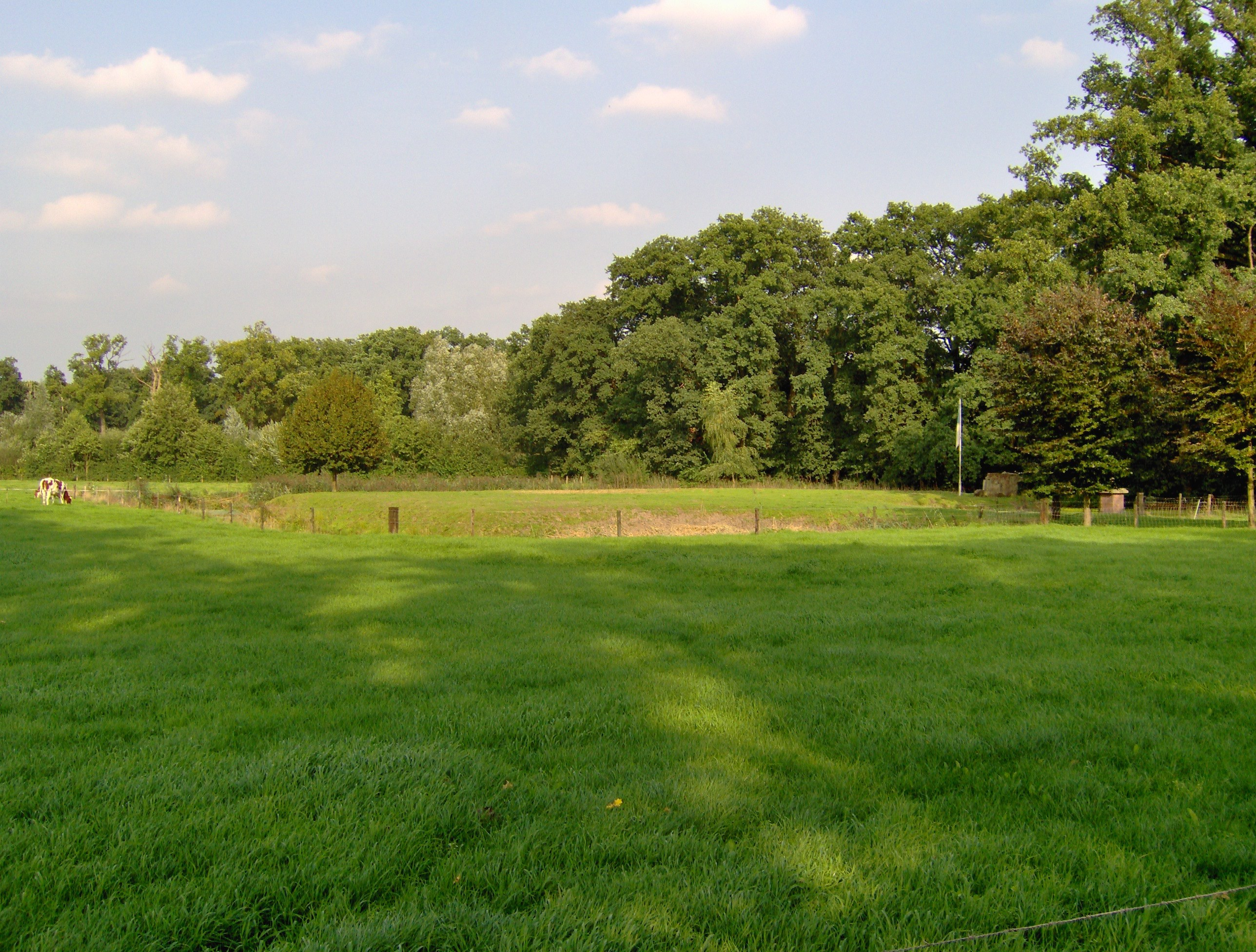 The remainings of the former castle of Weleveld between Zenderen en Hertme, near Borne, Netherlands